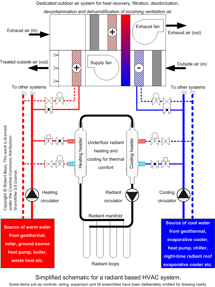 Example of a radiant based HVAC system. Drawing has been simplified by removing some components. Terms and conditions of use are stated here